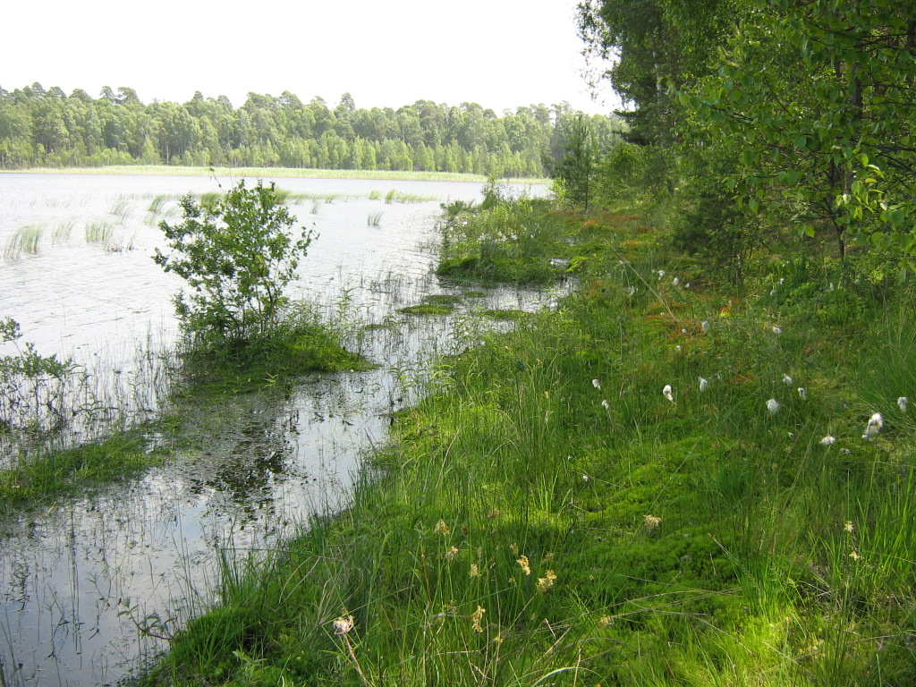 Lake Krasne (Pomeranian Lake District, Poland).